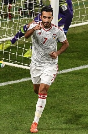 United Arab Emirates-Australia, 2019 AFC Asian Cup quarter-finals